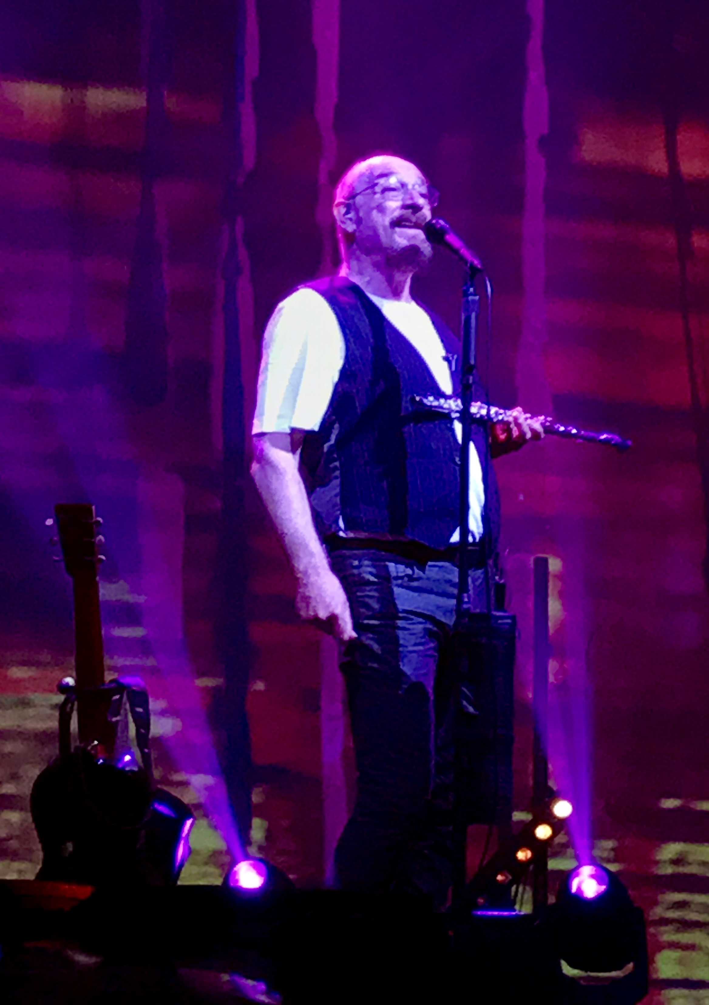 Ian Anderson with Jethro Tull Cambridge 11 April 2018